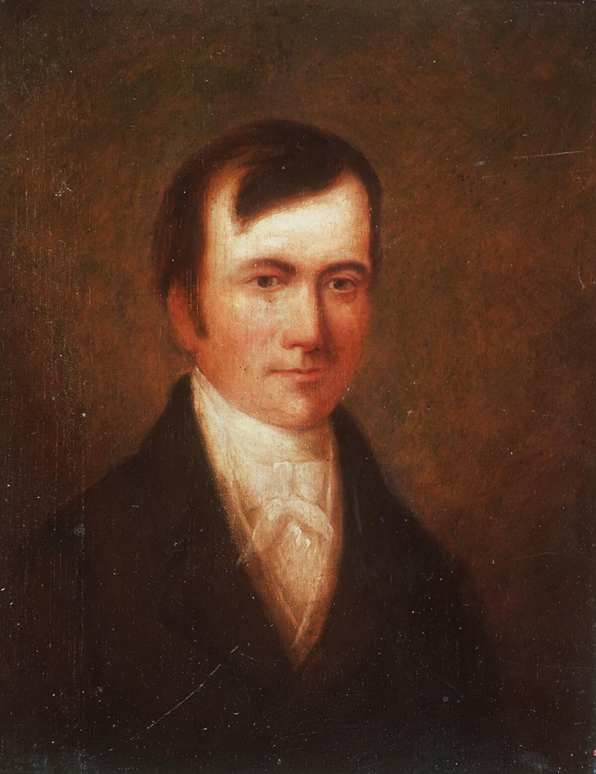 A painting from the Framed Works of Art collection at the National Library of wales.